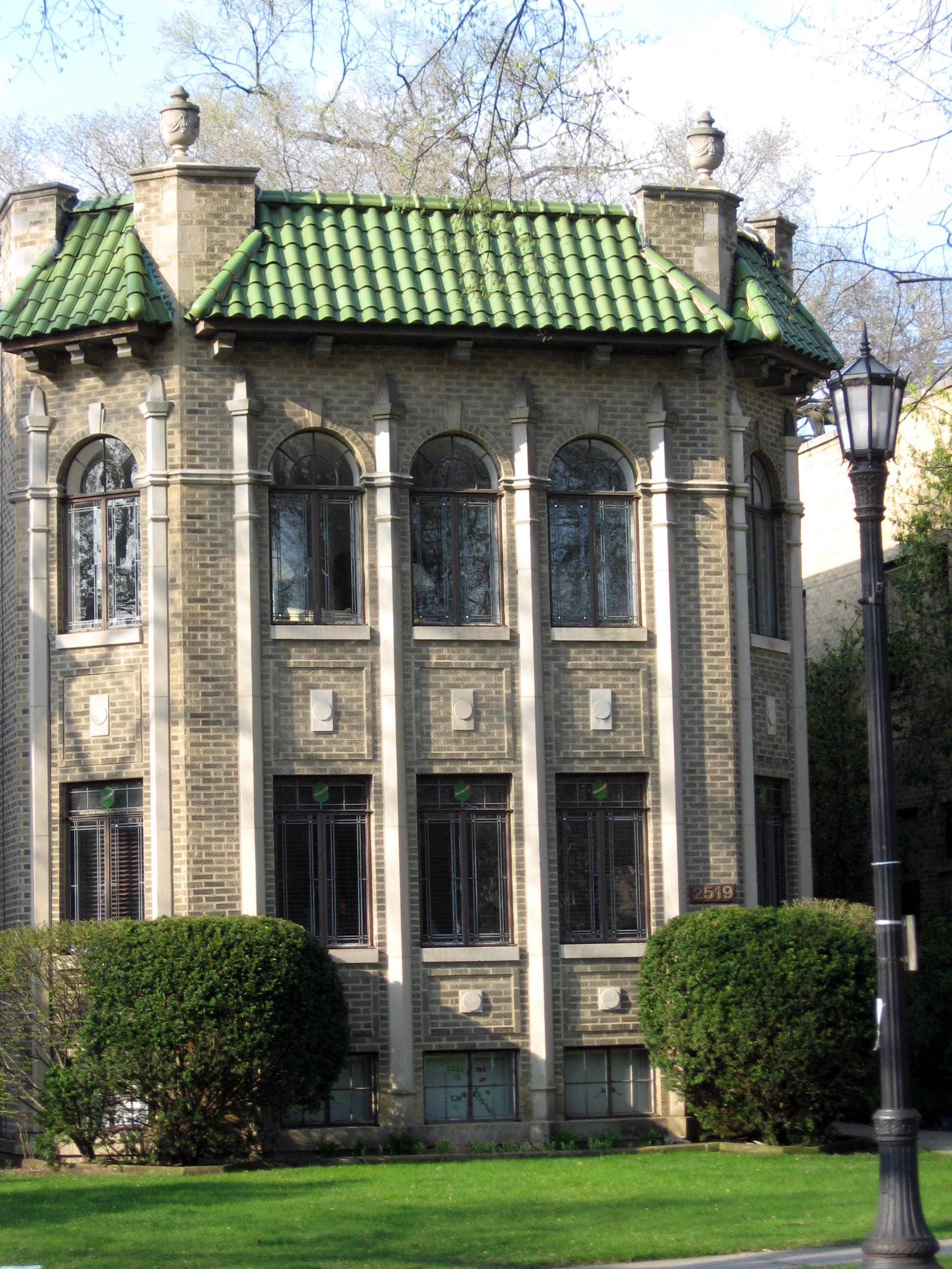 2519 Central St Evanston, IL 60201